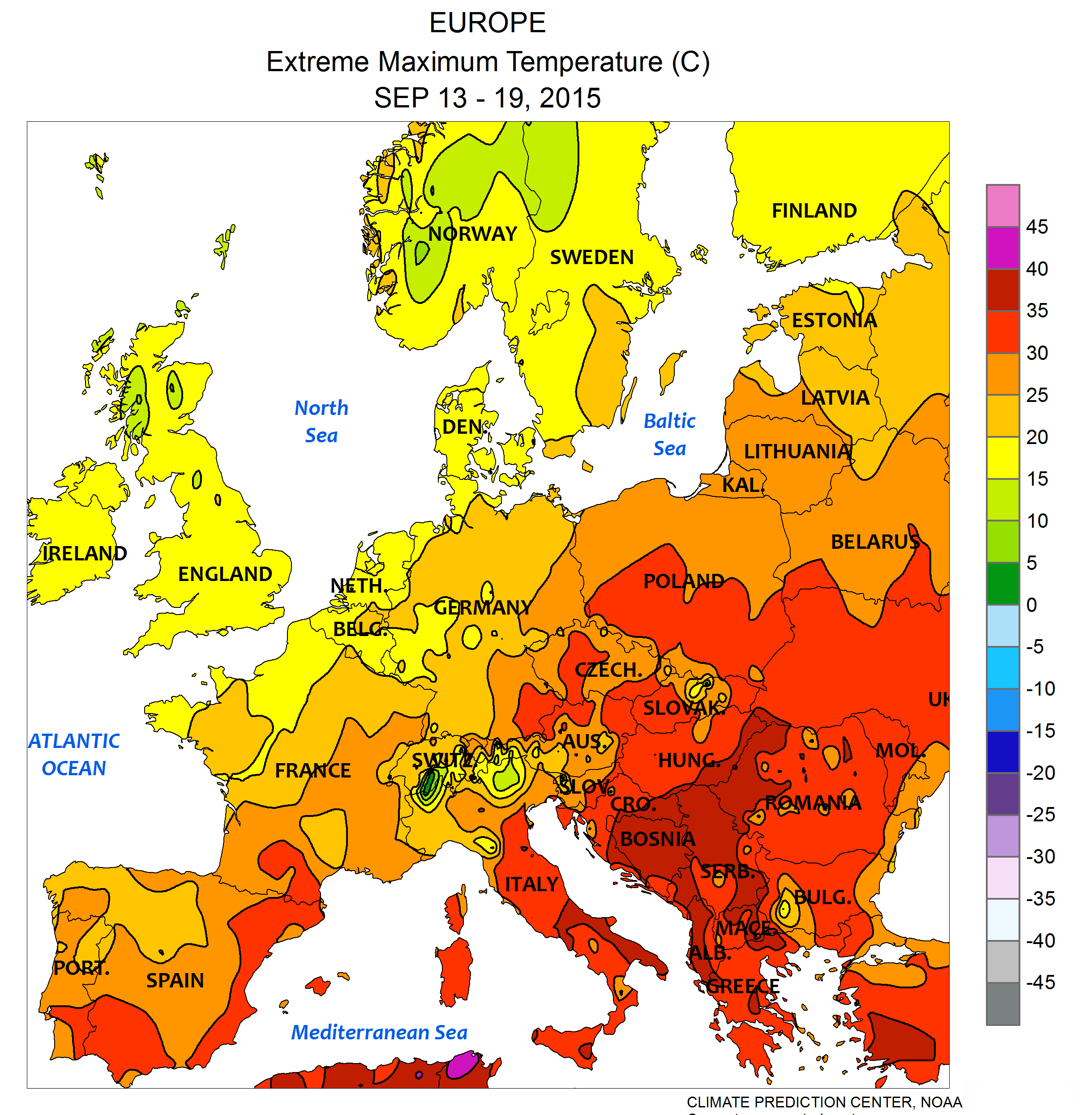 Europe: Extreme maximum temperature September 13 - 19, 2015, computer generated contours, based on preliminary data